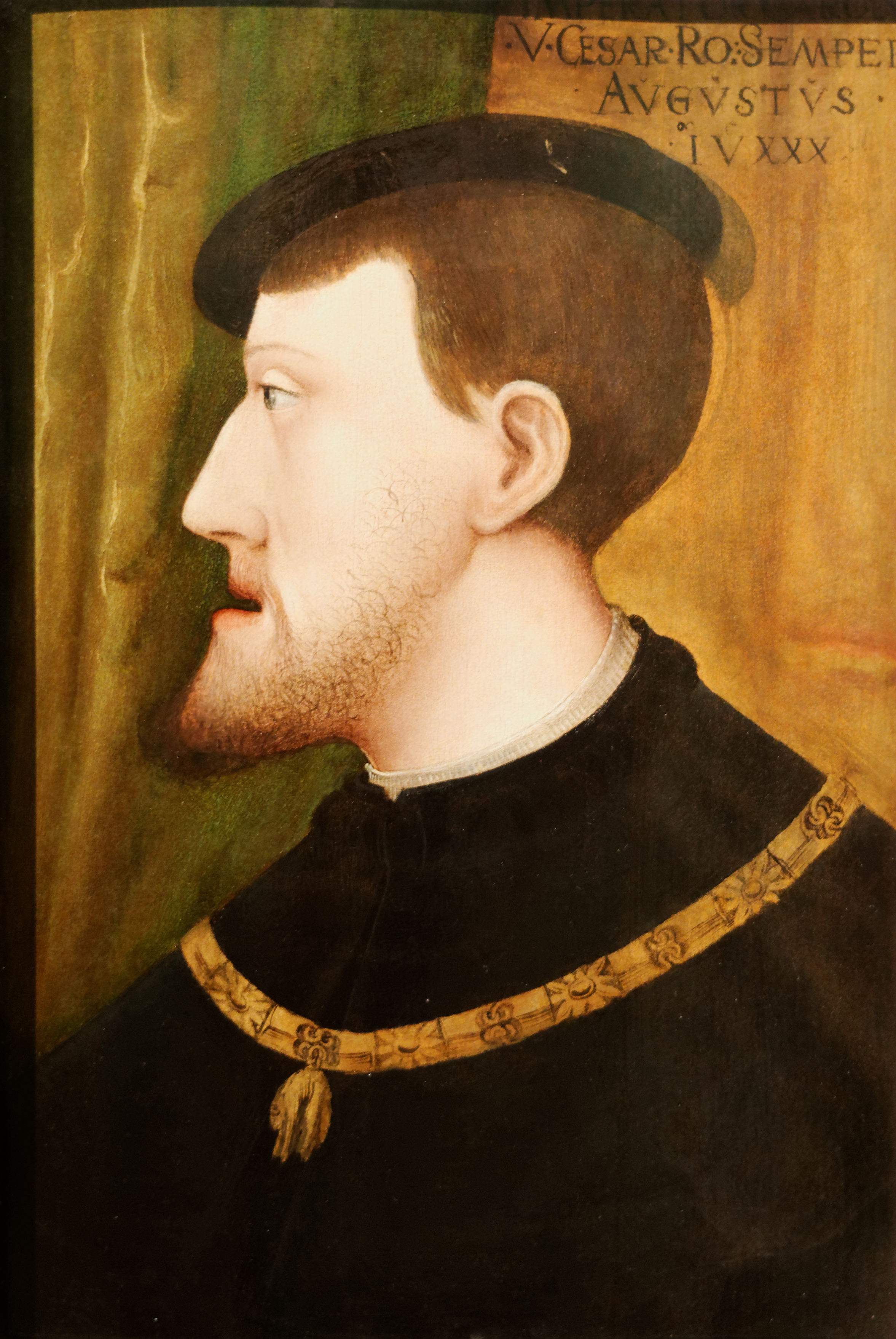 Portrait of Emperor Charles V. Spanish painter. Budapest Museum of Fine Arts, Inv N°821. Attained from the Hungarian National Museum